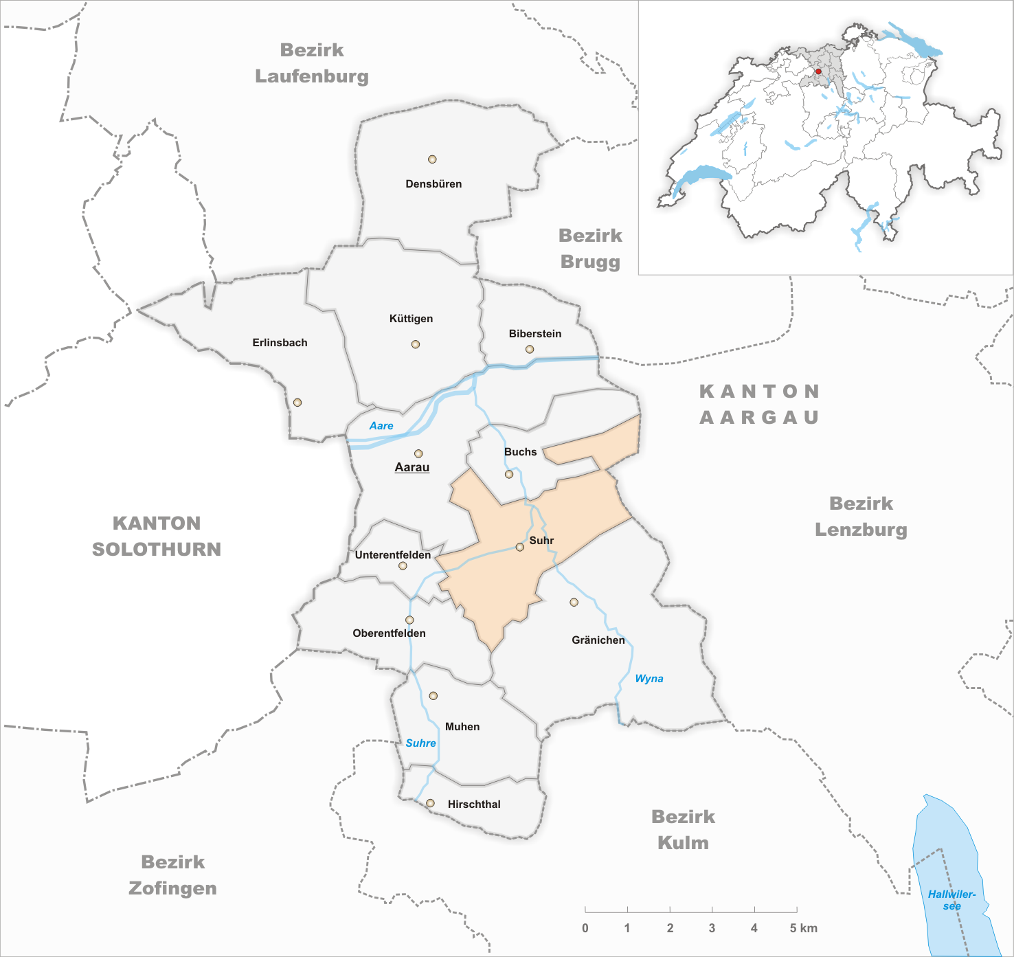 Municipality Suhr